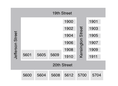 A snapshot of Arlington County Street Numbering System